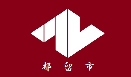 Flag of Tsuru Yamanashi